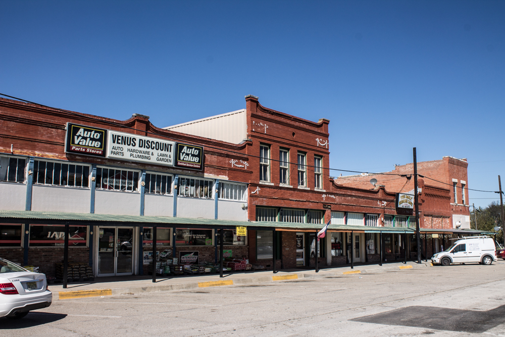 Downtown Venus, Texas